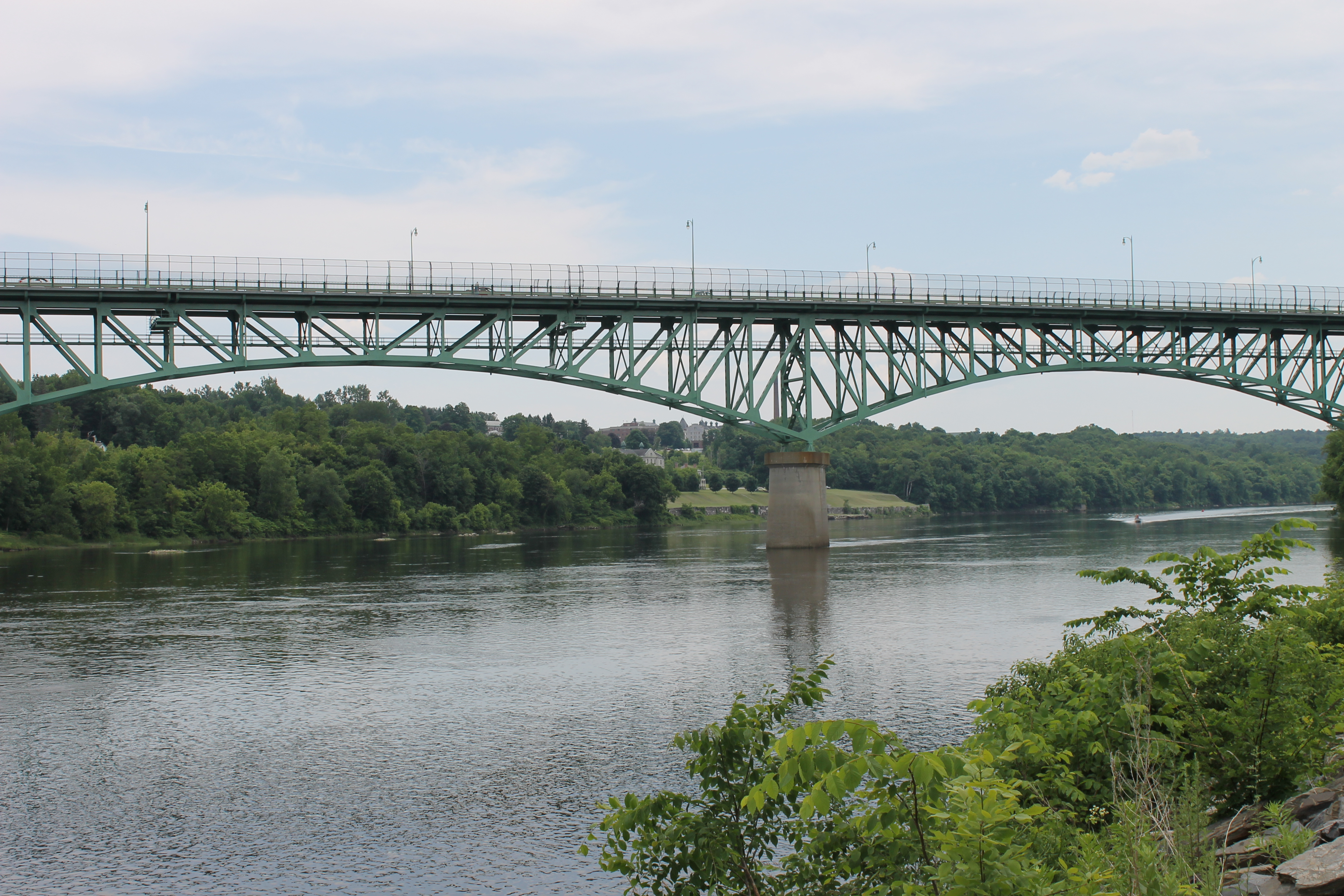 I took photo with Canon camera of bridge across the Kennebec River in Augusta, ME.